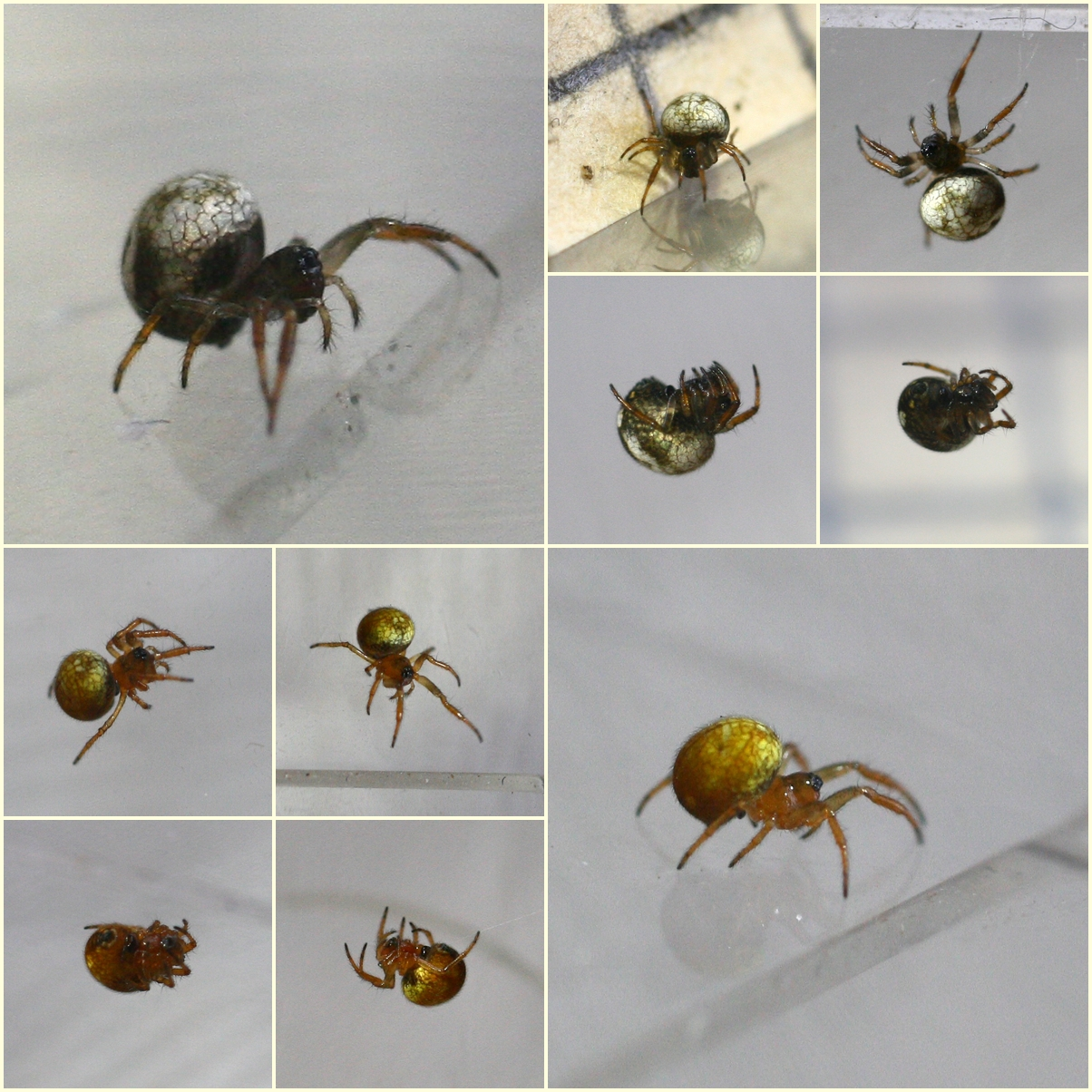 Theridiosoma gemmosum (Theridiosomatidae). Couple of females, with very different coloration. Epigyne pretty distinctive. Found low amongst grass etc along woodland ride (in a seasonally-wet part). Unfortunately I didn't check to see if they were sitting on proper webs before catching them. Bricket Wood Common, Hertfordshire, England, 14th June 2012.